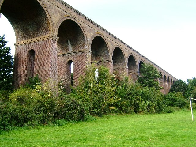 Chappel Viaduct, near Wakes Colne, Essex. Photographer is standing to the east of the structure, in playing fields designated as 'Millennium Open Spaces' which surround this part of the viaduct and are accessed via Chappel Village.